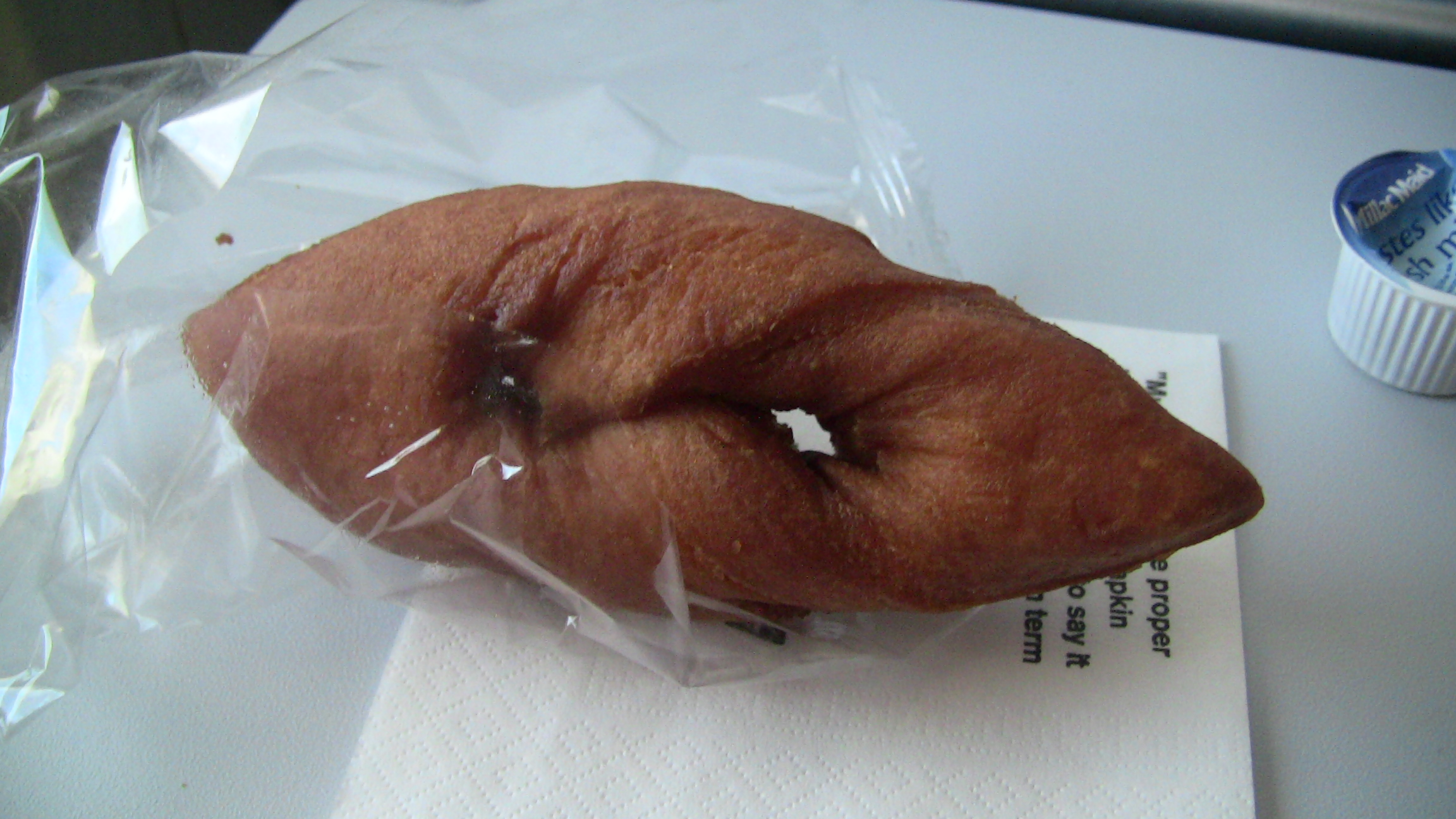 Icelandic Twisted Donut called Kleine Served in Icelandair.